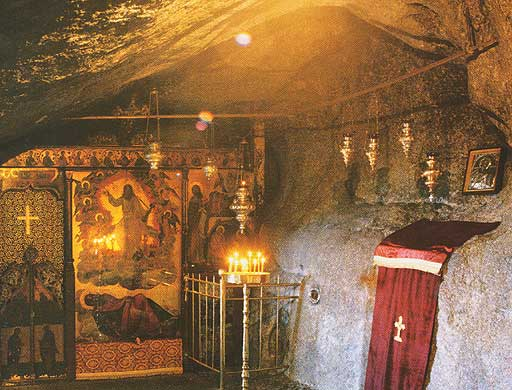 Apocalypse Cave